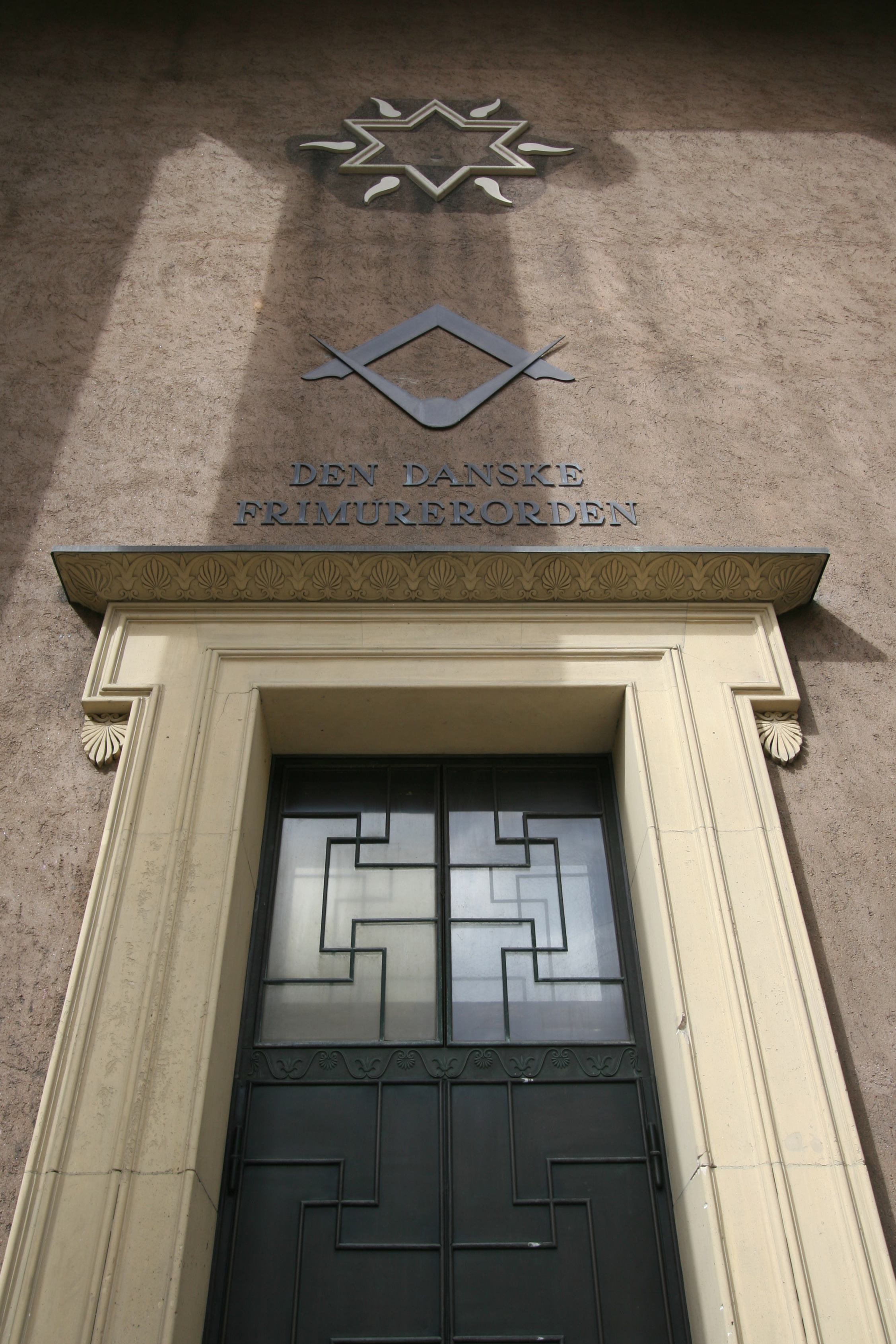 The Freemason Lodge, Copenhagen, Denmark (Entrance)